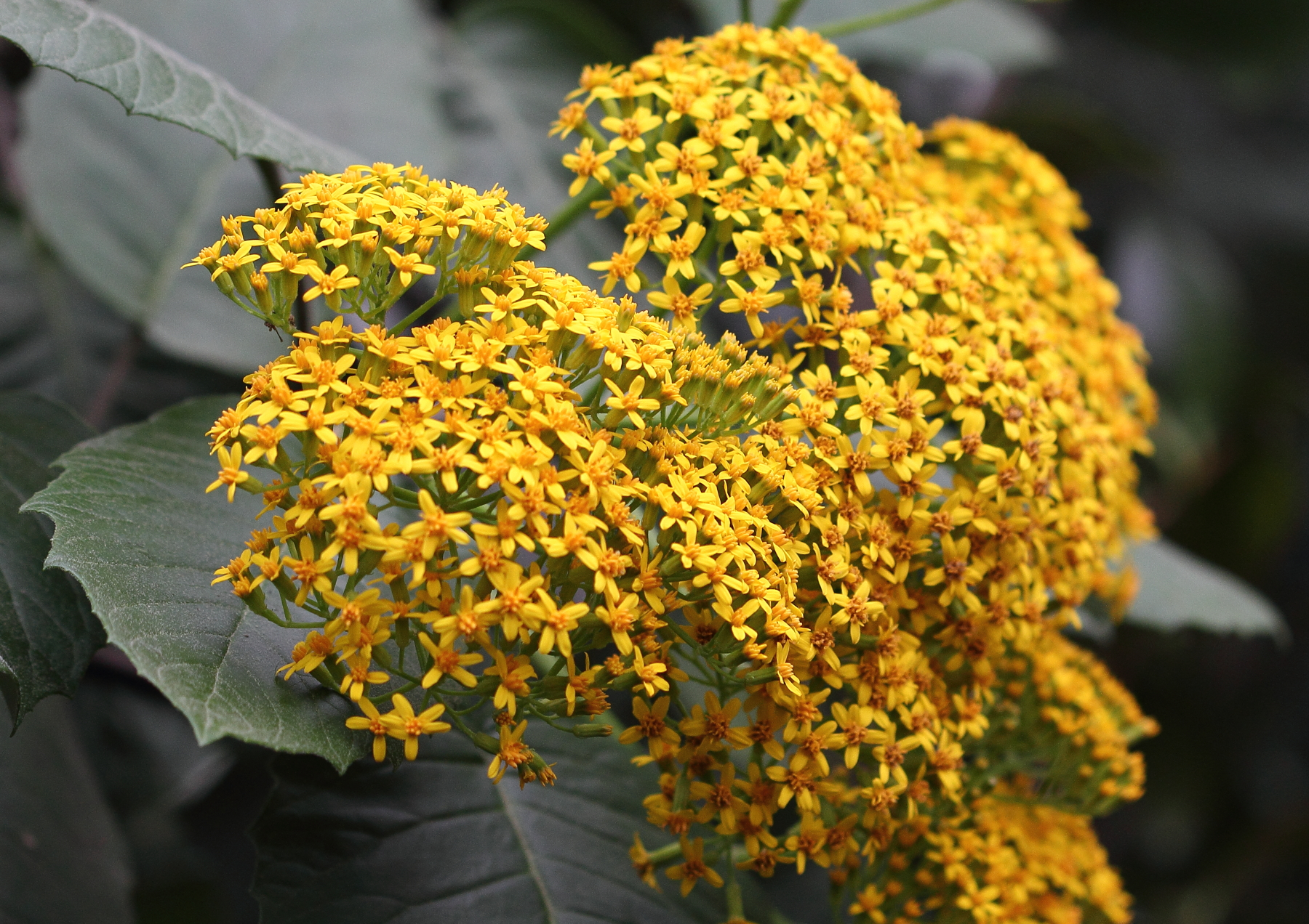 Senecio grandifolius, picture taken in botanical garden Flora in Cologne, Germany. Origin of the plant is Mexico.